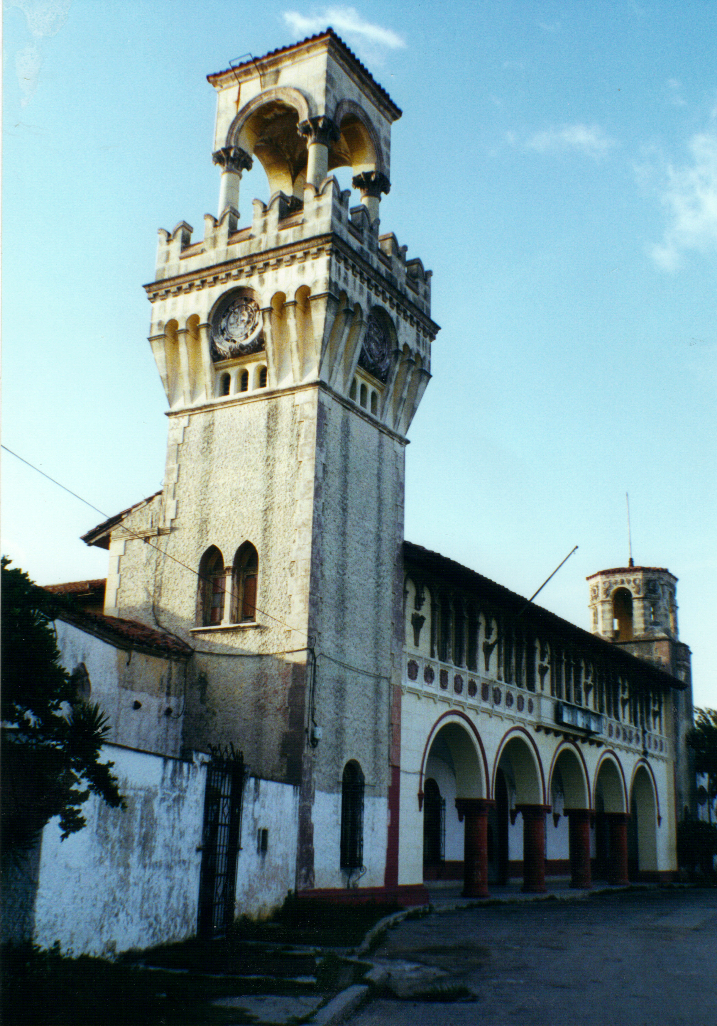 Old La Concha Club (1928) Playa, Havana, Cuba in October 2002.Scanned out of my photo album